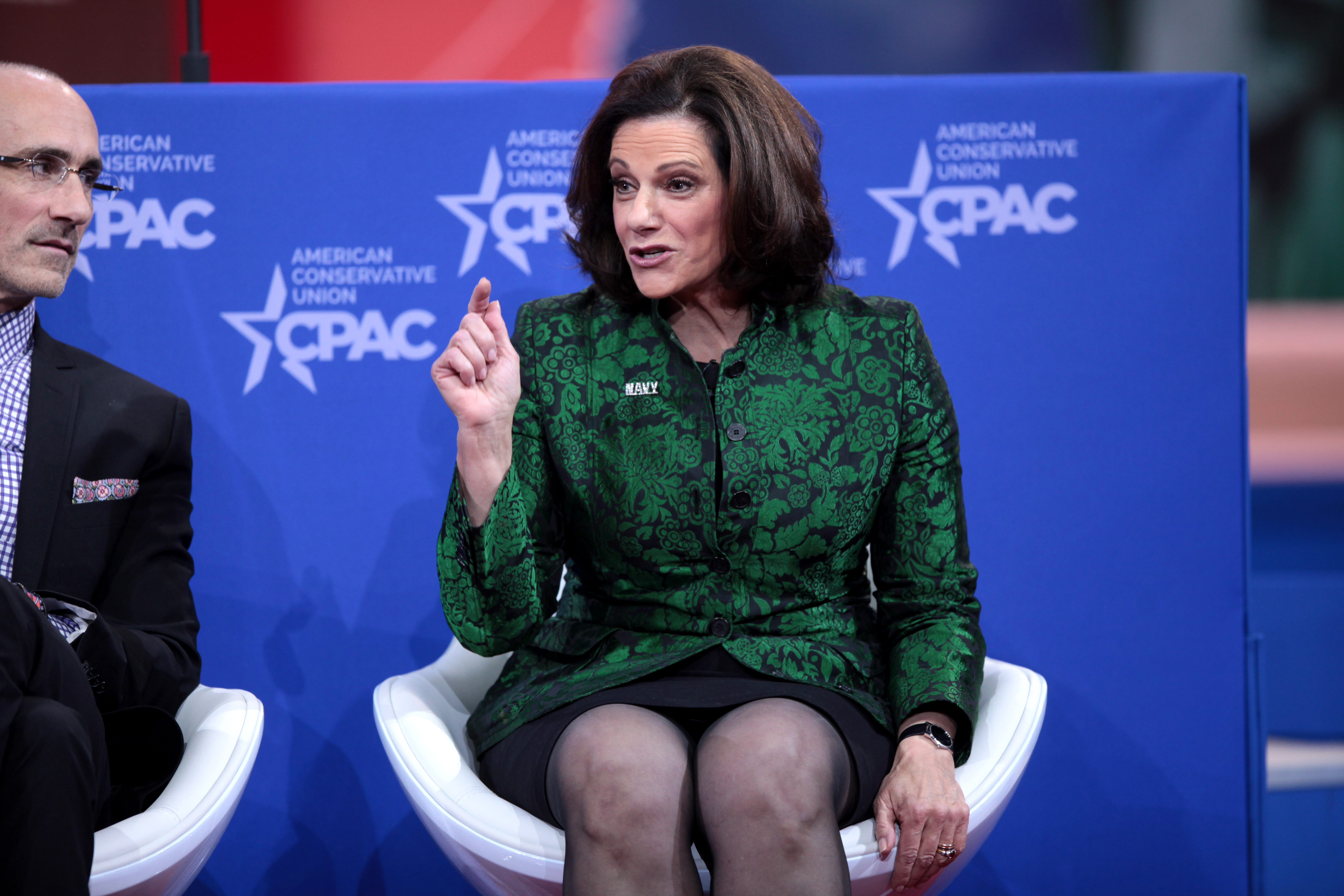 KT McFarland speaking at the 2015 Conservative Political Action Conference (CPAC) in National Harbor, Maryland.